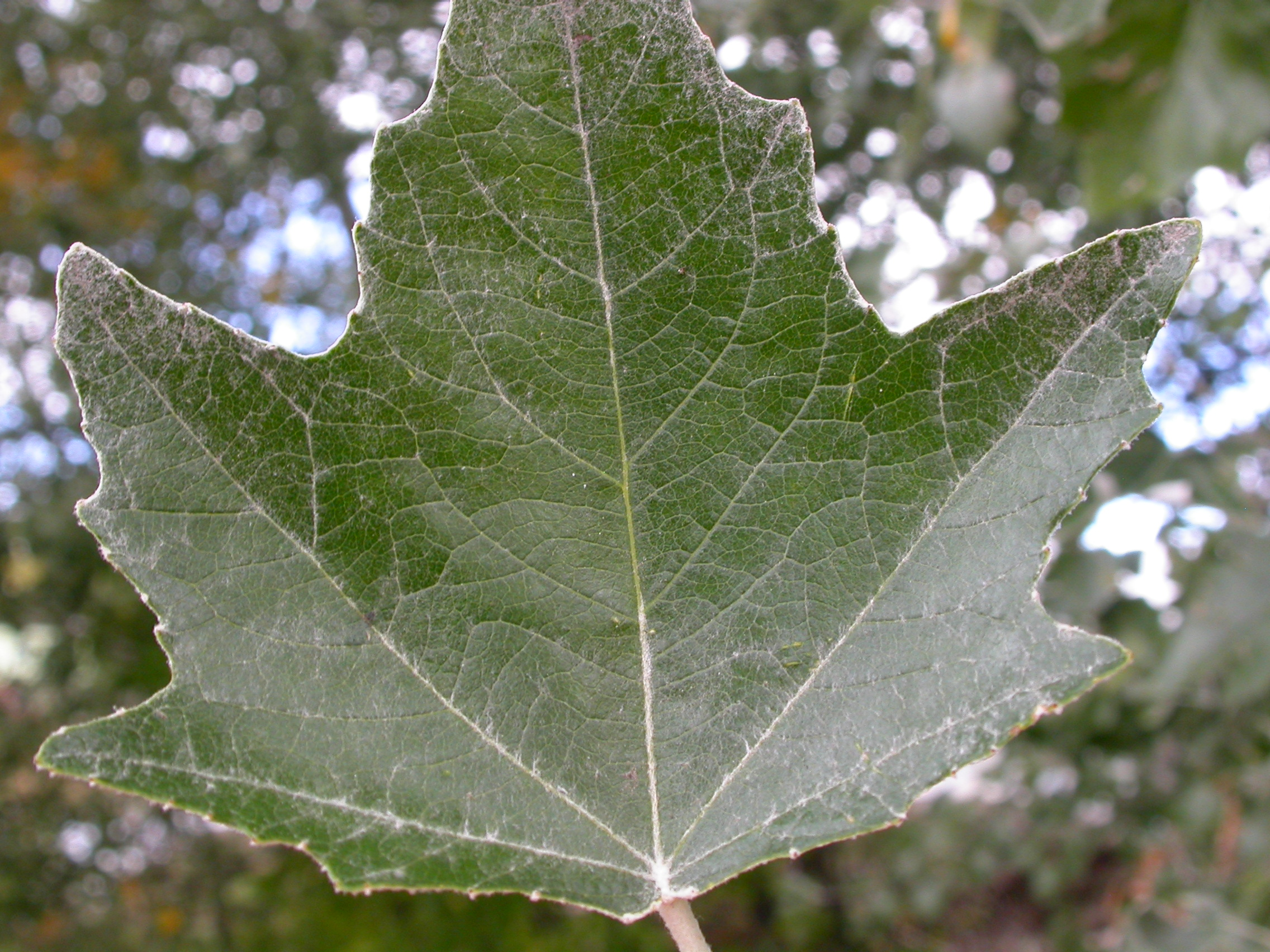 The leaves are conspicuous white lanate below and green above.